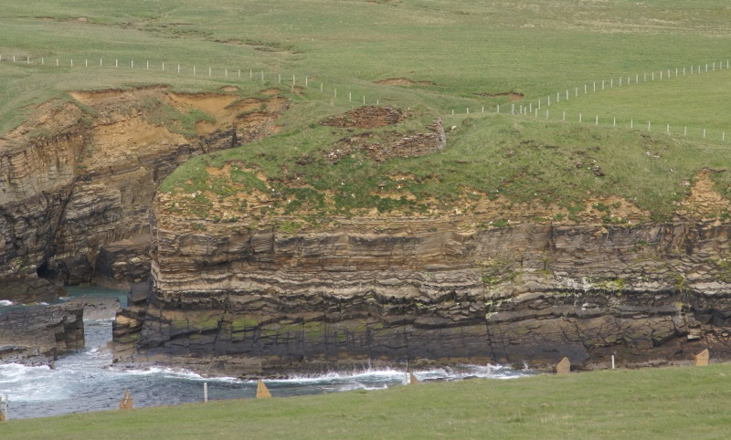 Broch of Borwick, Mainland, Orkney, Scotland. View from southwest.